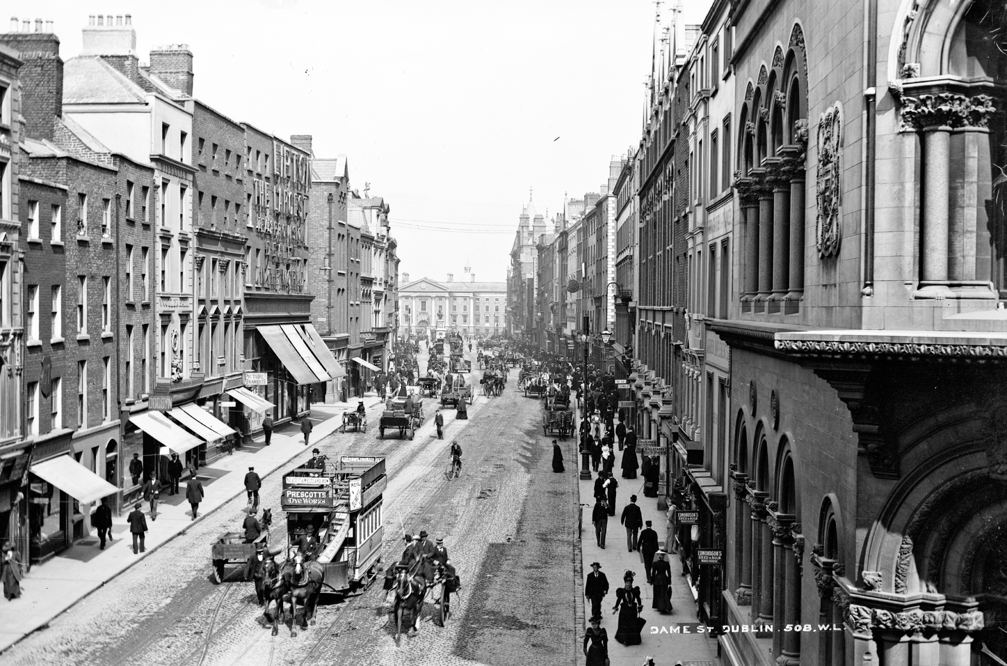 So much has changed and so little has changed! This shot of Dame St. in Dublins city centre is still recognisable today despite perhaps 100 years that have elapsed. Mr. French must have obtained access to a building on Palace St. to get such a Point of View. There is much in this image to help date it? And indeed with initial input from [/photos/gnmcauley/ Niall McAuley] and [/photos/beachcomberaustralia/ BeachcomberAustralia], the date was confirmed to be before 1900 (based on the horse-drawn trams and street lighting). [/photos/47297387@N03/ Carol Maddock] was then able to refine further, using the notice about the opéra comique named Olivette which was seemingly playing at the Theatre Royal in June 1898. Helping refine the date to the summer of 1898. At 3:40 in the afternoon :) Photographer: Robert French Collection: Lawrence Photograph Collection Date: Catalogue range c.1865-1914. Likely c.1898 per comments and description NLI Ref: L_CAB_00508 You can also view this image, and many thousands of others, on the NLI’s catalogue at